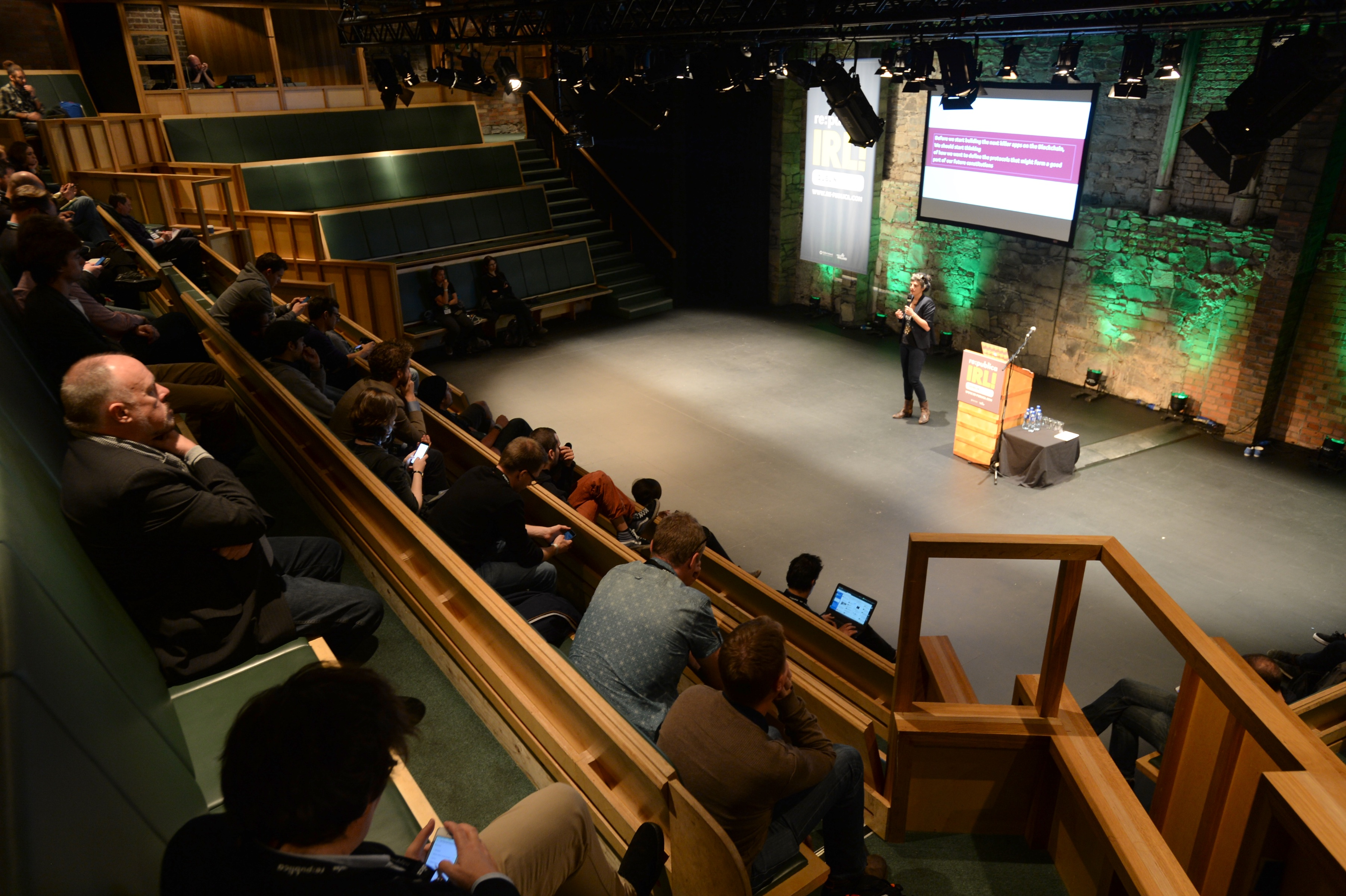 Shermin Voshmgir Founder BlockchainHub Credits: re:publica/ Justin Farrelly (CC BY 2.0)